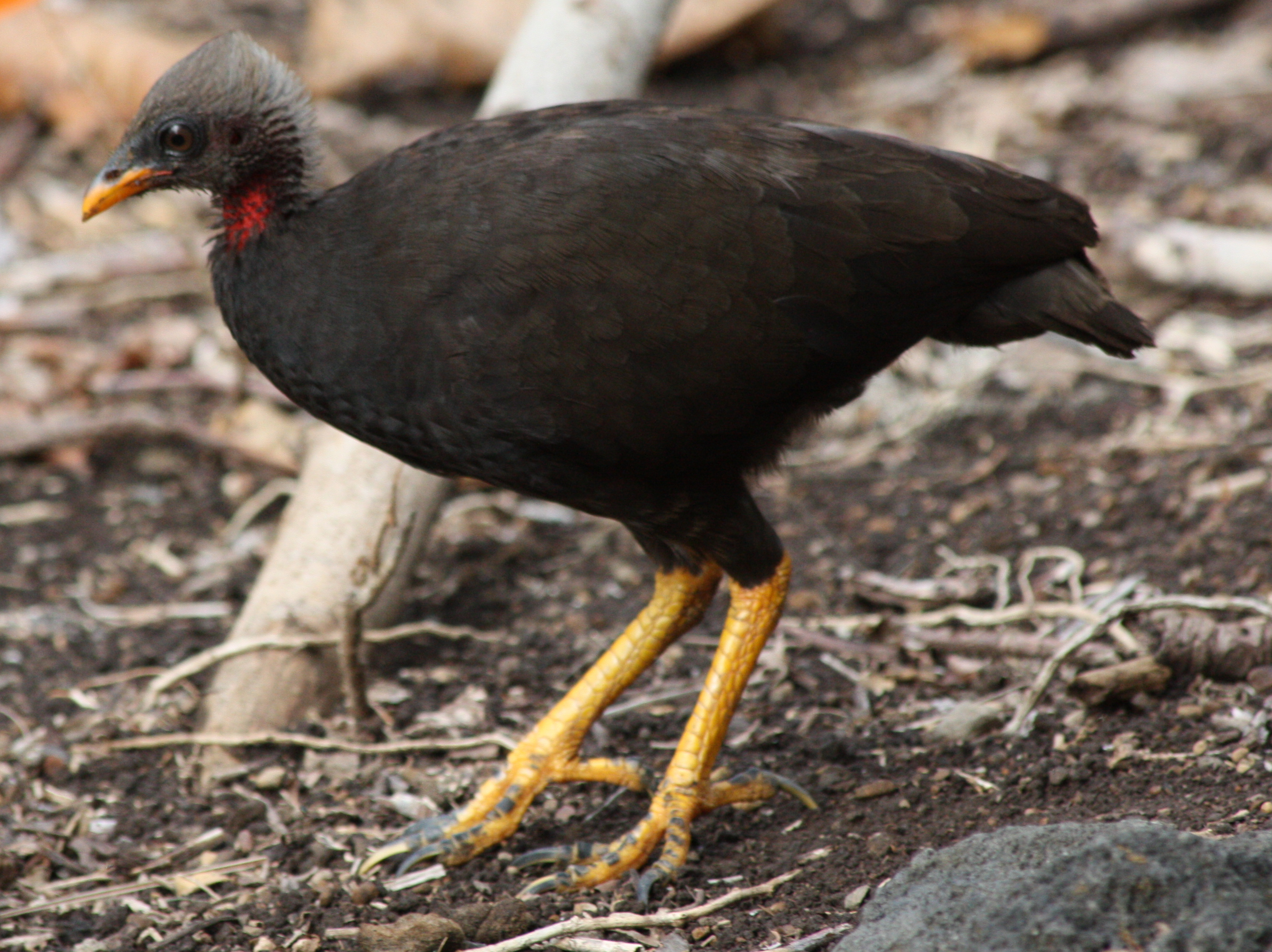 Photos taken on the island of Sariguan, Commonwealth of the Northern Mariana Islands, in June 2010. Micronesian megapode (Megapodius laperouse).